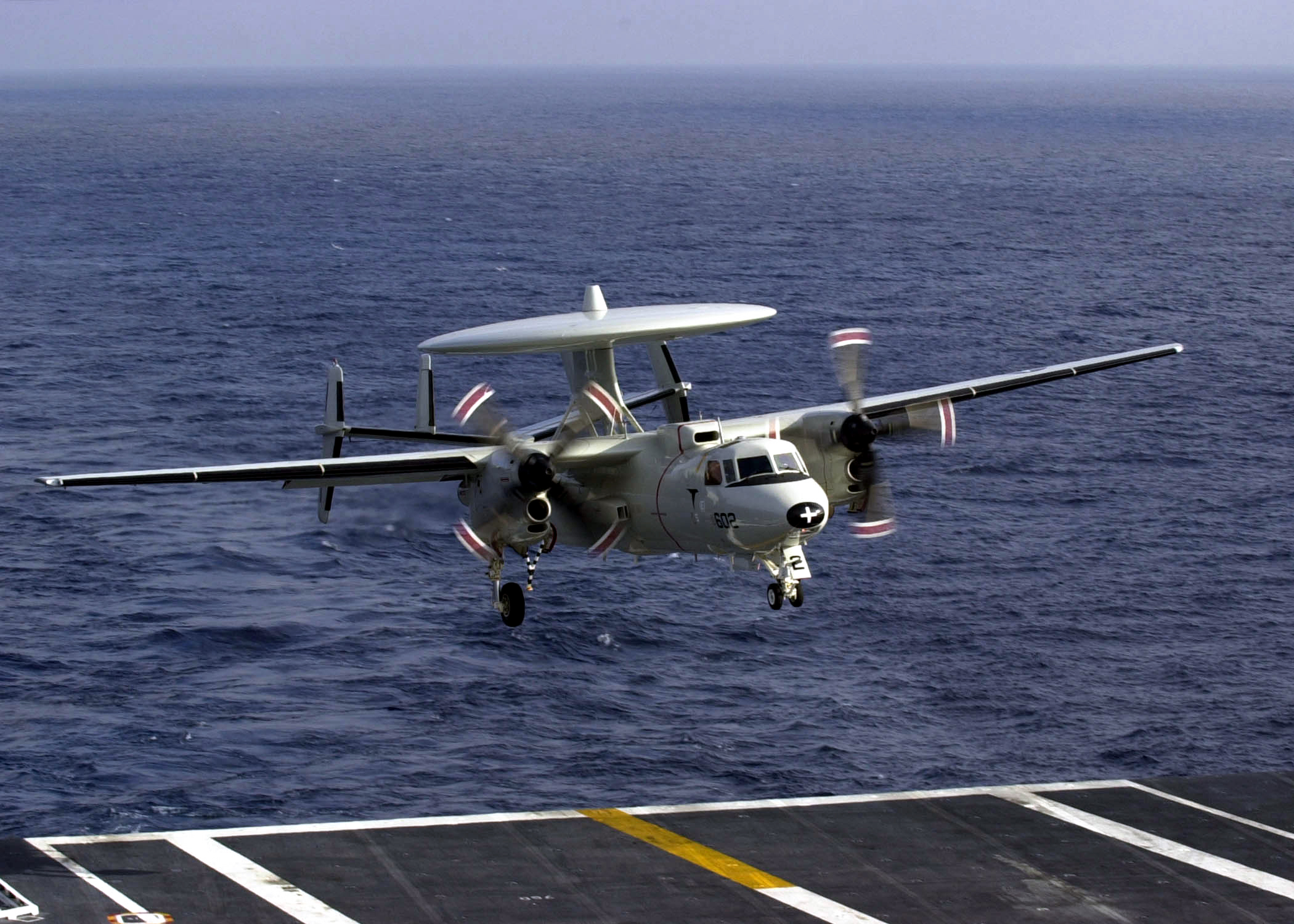 At sea aboard USS Nimitz (CVN 68) Sep. 14, 2002 -- An E-2C “Hawkeye” assigned to the "Wallbangers" of Carrier Airborne Early Warning Squadron One One Seven (VAW-117) approaches the flight deck for an arrested landing. This is the first time that a full air wing has embarked aboard Nimitz since 1997. Nimitz is undergoing Tailored Ship's Training Availability (TSTA) Two and Three off the coast of California. U.S. Navy photo by Photographer’s Mate 3rd Yesenia Rosas. (RELEASED)